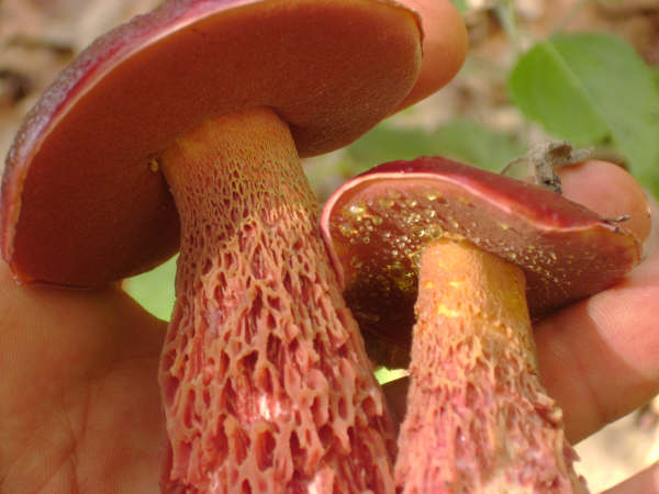 The "apple bolete" mushroom, species Boletus frostii − Russell. Specimens photographed in Yolosta, Jalisco, Mexico. "Notes: Cactu collection. Edible and delicious, if you peel the cap cuticle."